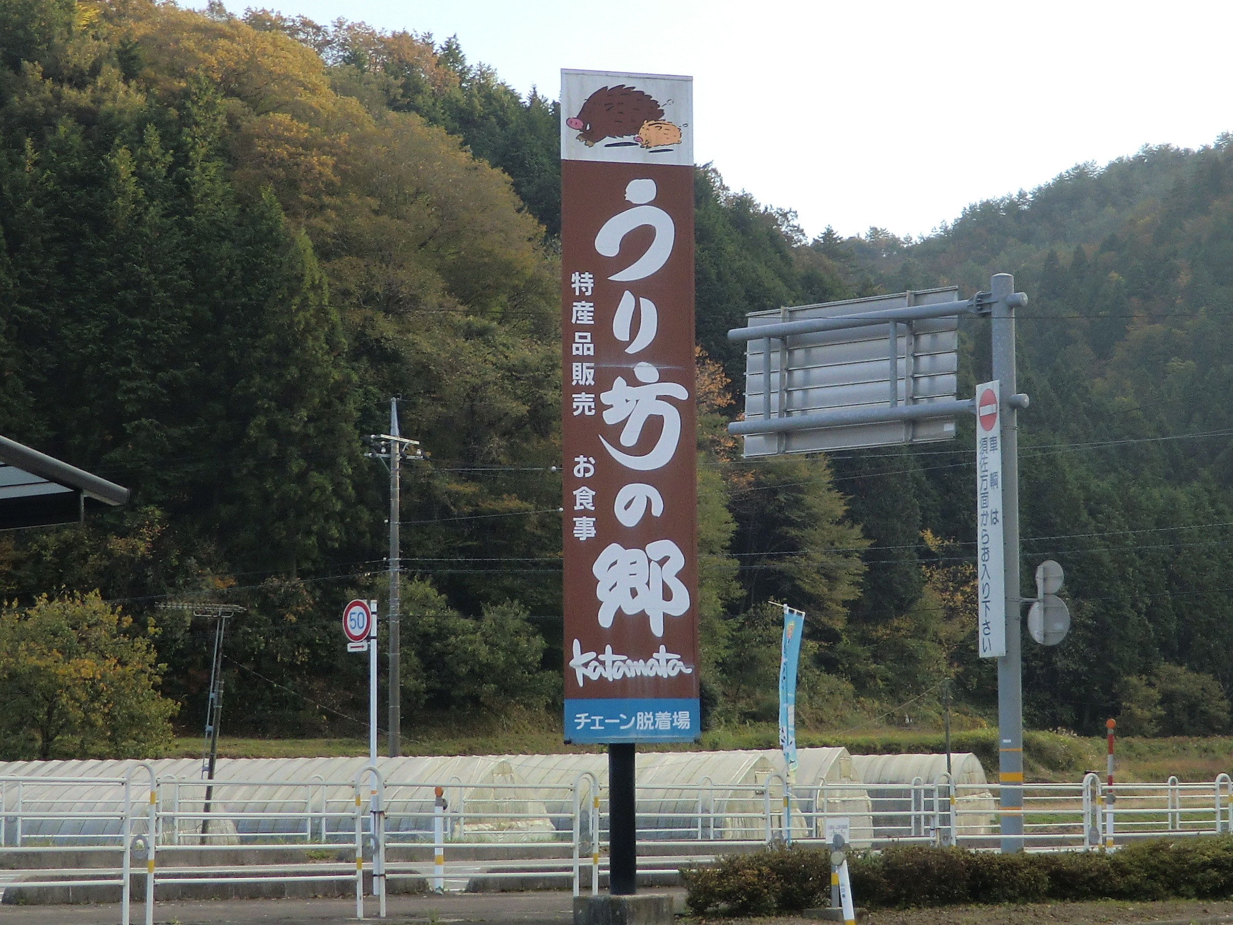 Sign for Michinoeki Uribo no Sato Katamata in Hagi City, Yamaguchi Prefecture, Japan